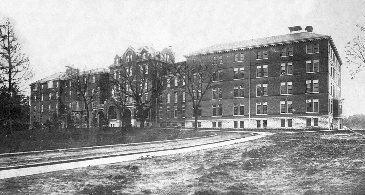 Copyright 1910 by Carl A. Holland. St. Mary's Hospital, Rochester, Minnesota, United States. "Real Photo" postcard postmarked 1911. Public domain in the United States as published before 1923.